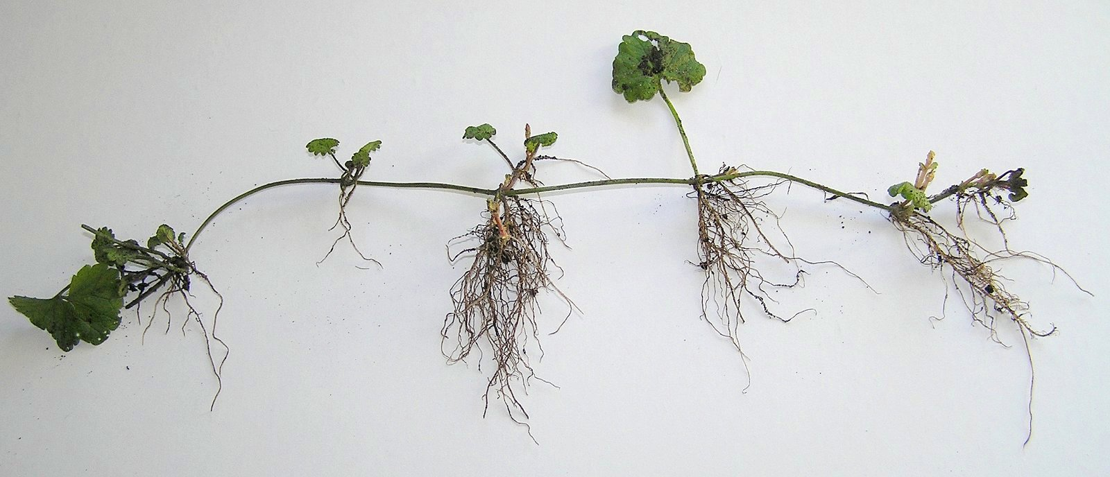 Glechoma hederacea